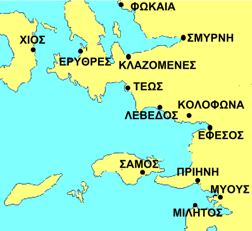 Cities of Ancient Ionia